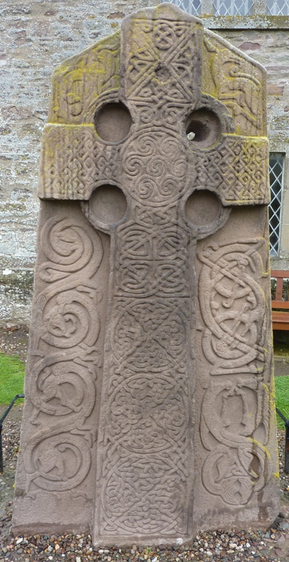 Aberlemno, Angus, Scotland - Churchyard Cross Slab, cross side